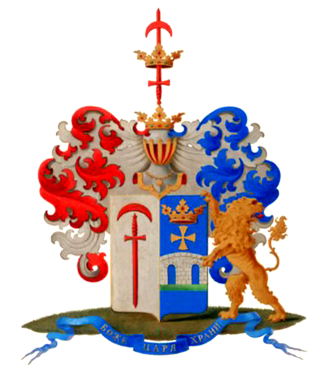 Coat of Arms of family Lvov (noble, not princes!)